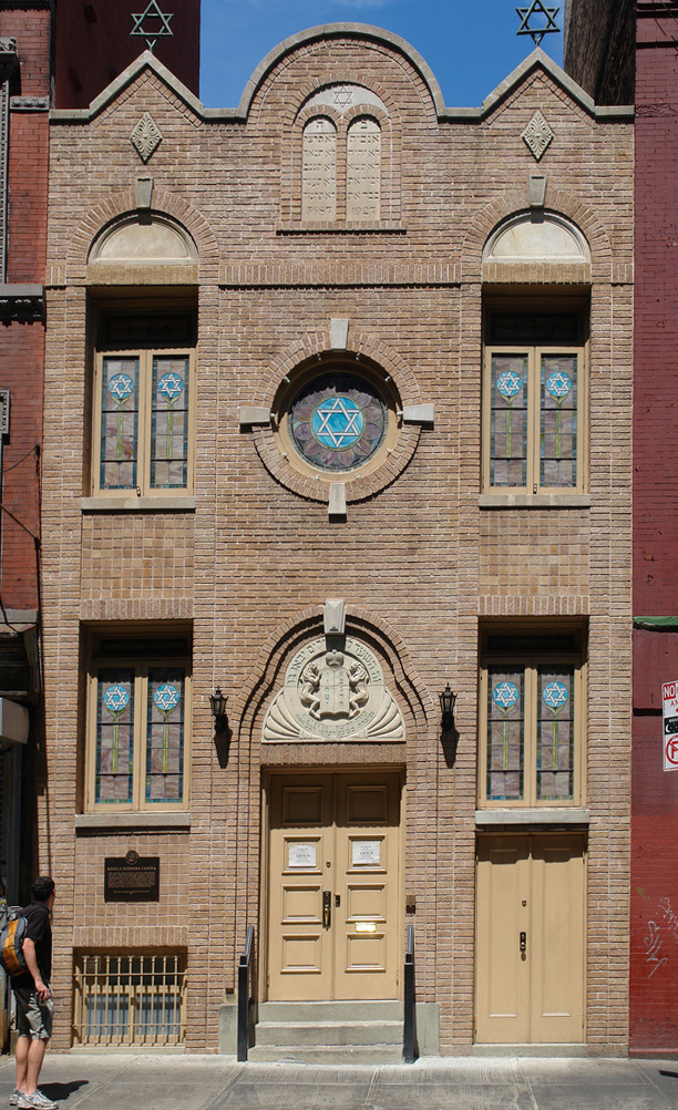 This was built in 1926-27 by Greek speaking Jews from northern Greece. It is the only Romaniote Synagogue in the Western Hemisphere according to the plaque. It has been designated a landmark and the plaque is dated 2007. It's at 280 Broome Street off Allen Street.